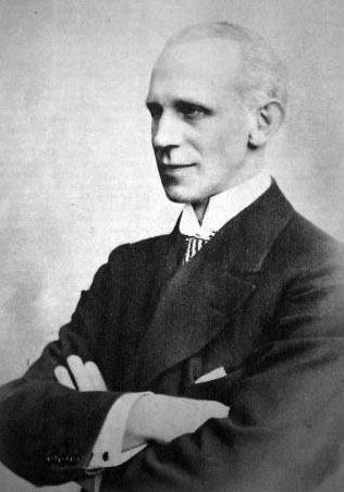 Picture of Erik Frisell, Swedish industrialist